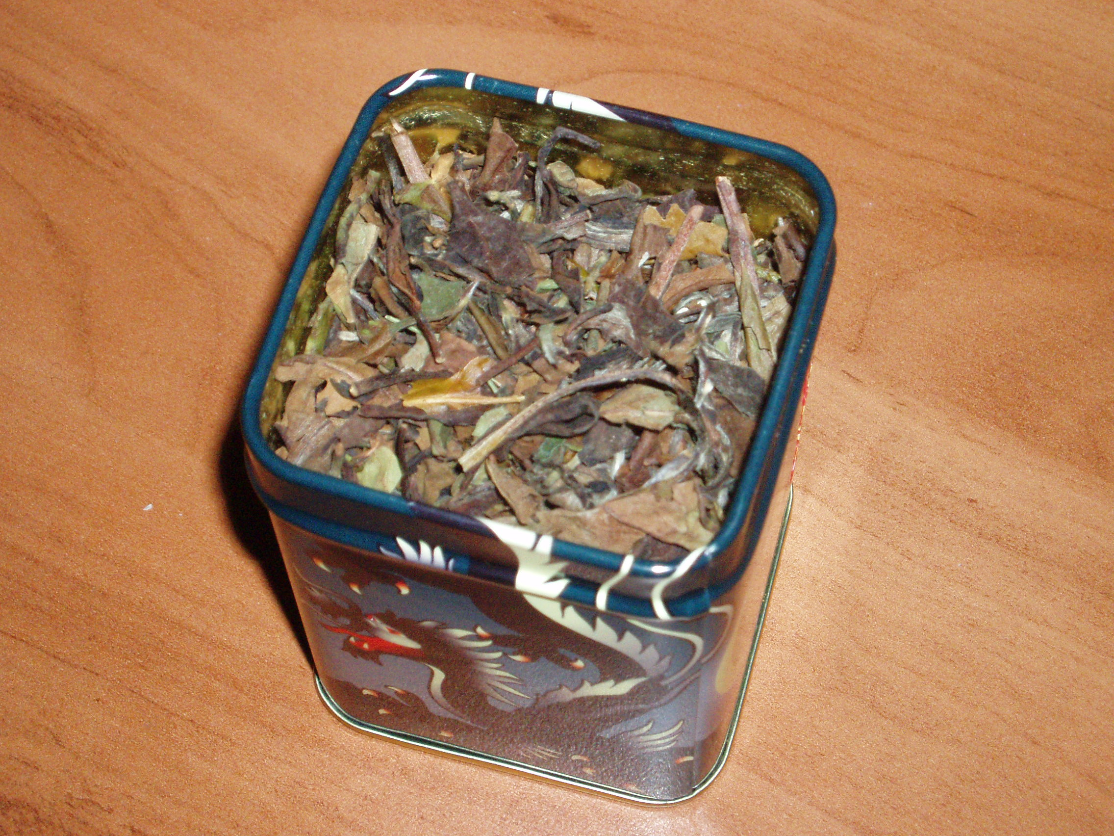 Shou Mei tea (Noble, Long Life Eyebrow)